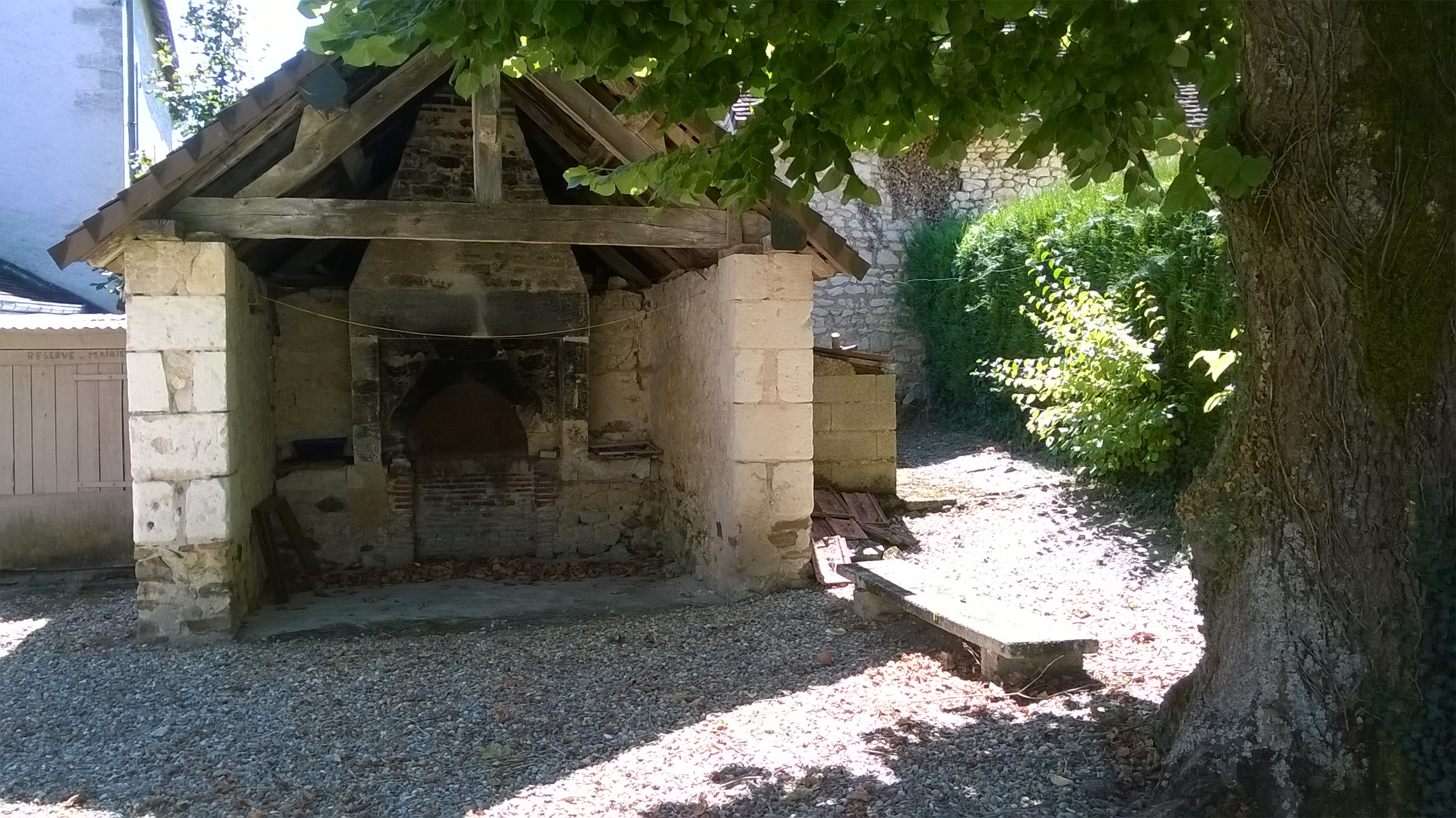 In the time before the Revolution, the peasants were forced to use a common oven said to be the prerogative of the Lord, who charged a tax, called a "banalité" for each use.